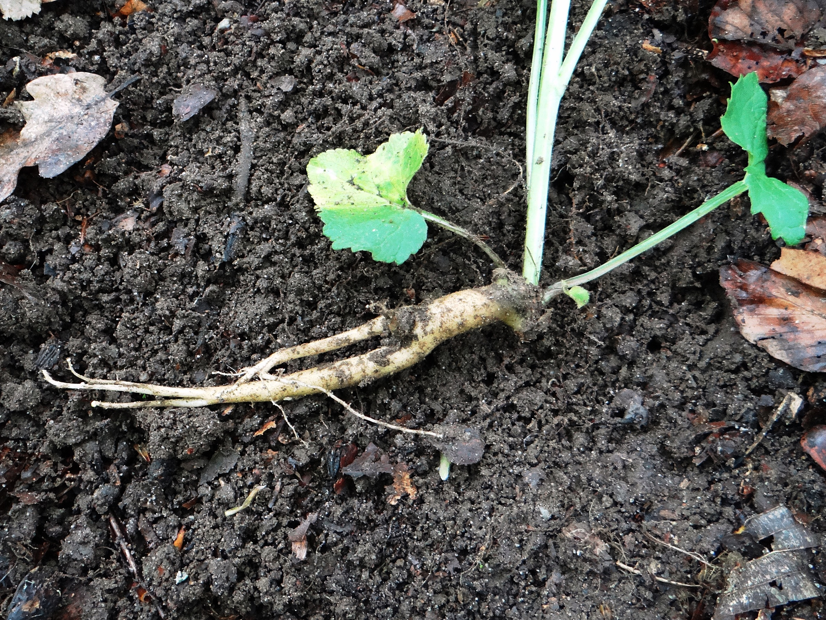 Root of Phyteuma spicatum